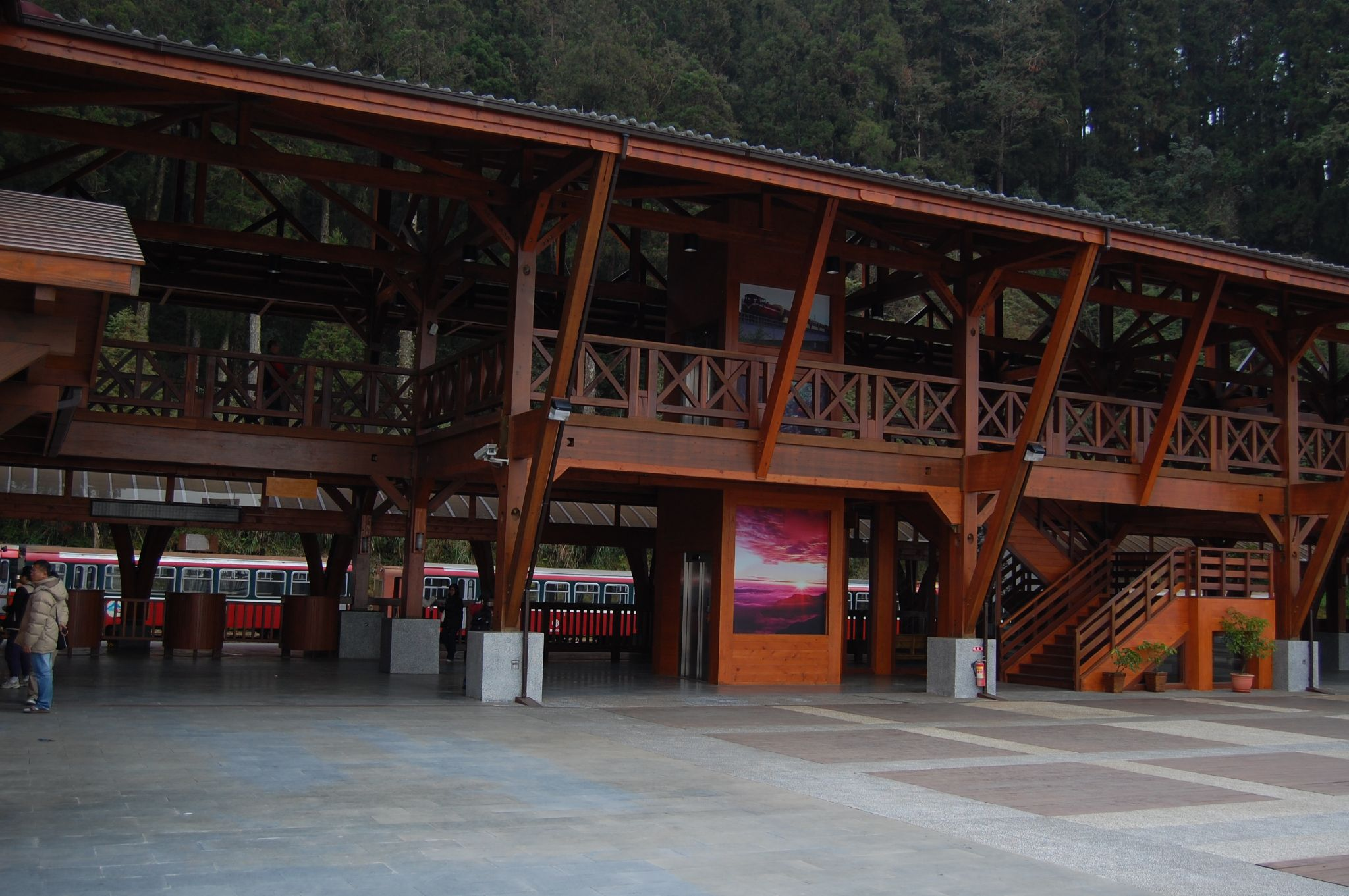 Alishan Forest Railway Alishan Station 阿里山森林鐵路阿里山車站